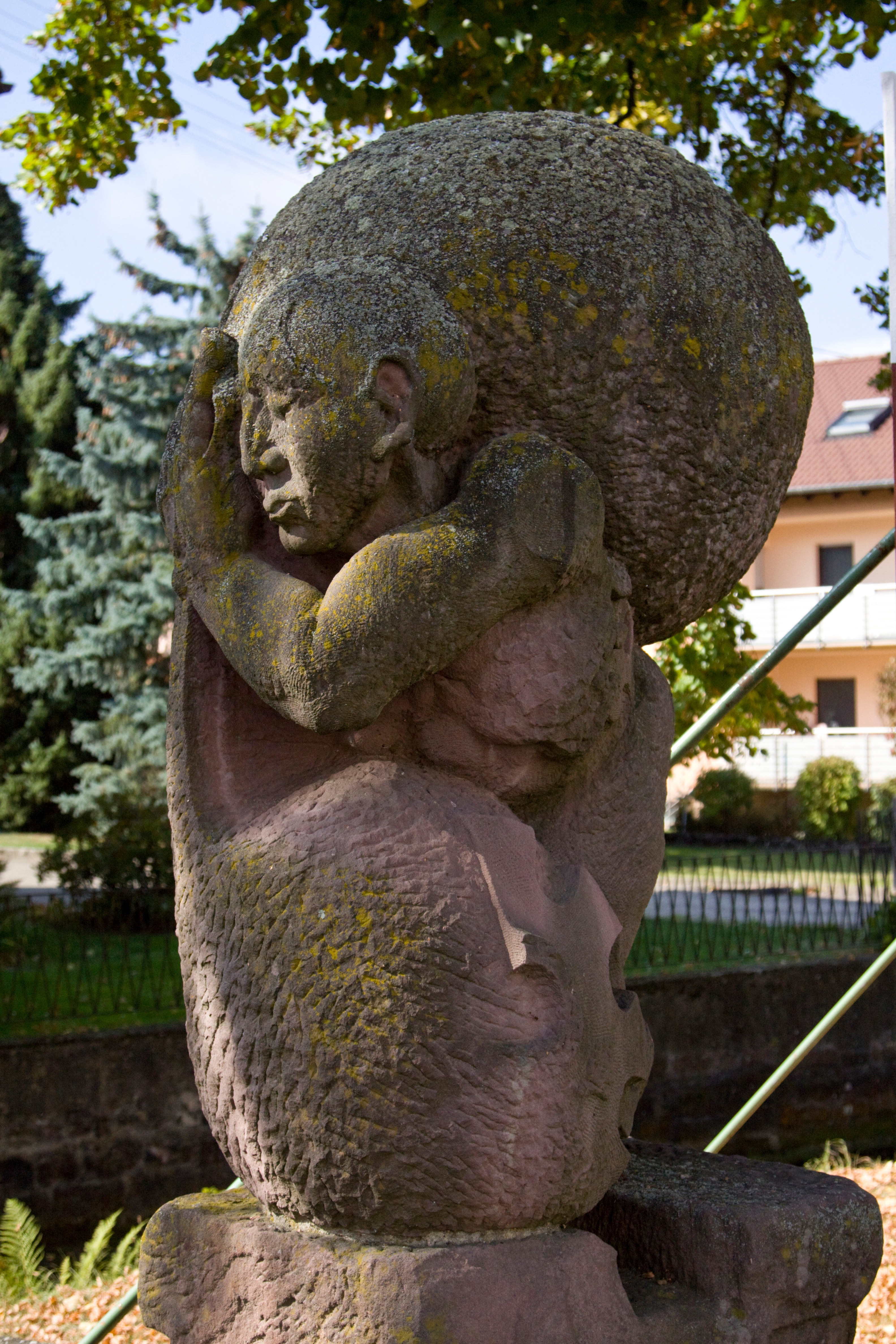 Picture of the Sackträgerbrunnen in Denzlingen. It was build in 1974 by Helmut Lutz from Breisach.